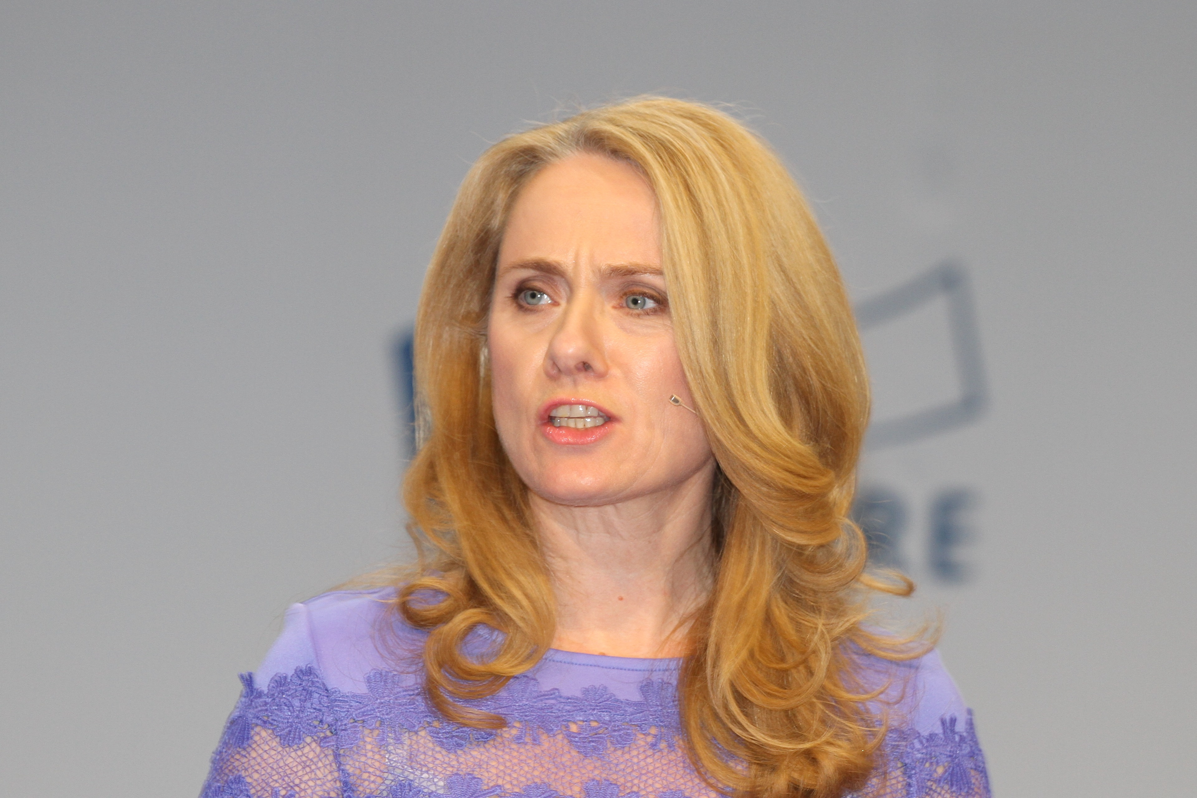 Anniken Hauglie